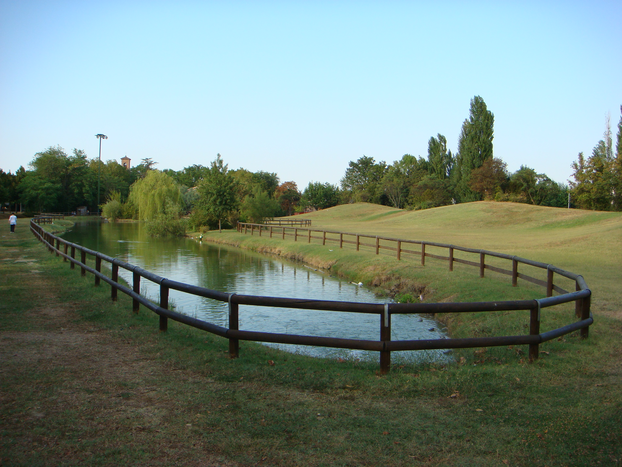 Small artificial lake at the garden in "Area Pasi", in Medicina (Italy).